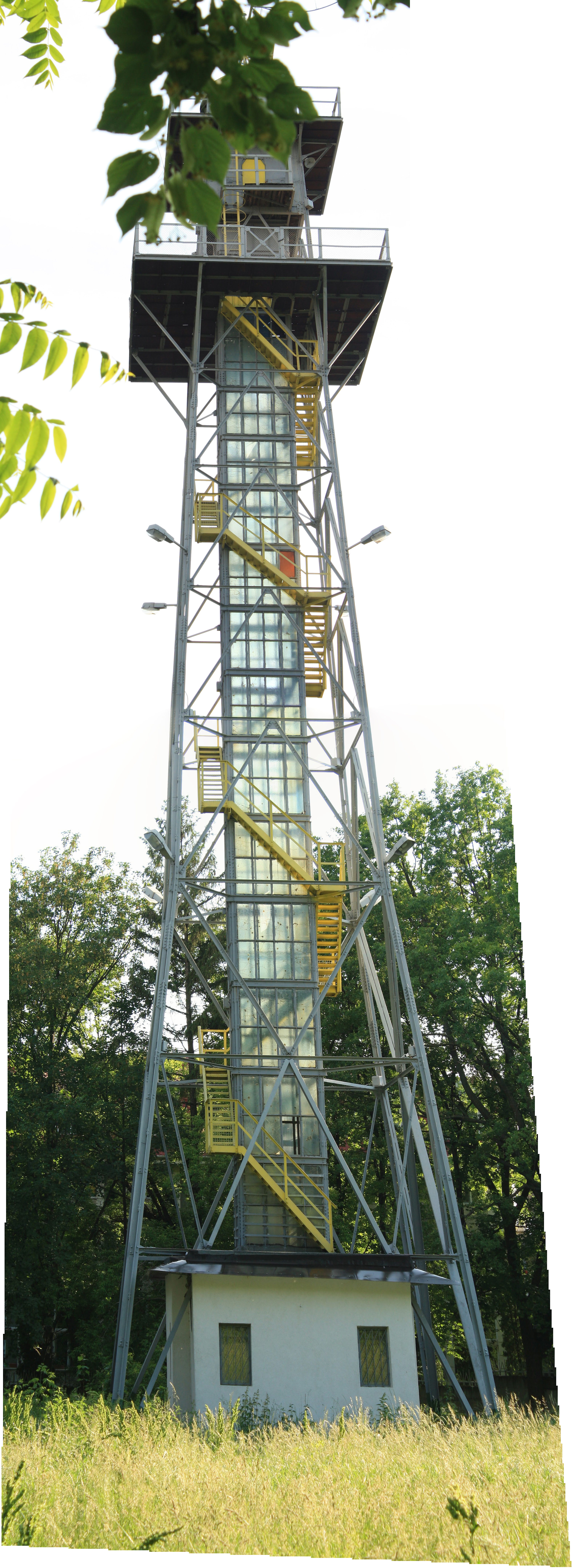 Turnul de paraşutism din Iaşi (panoramic) (high-resolution)